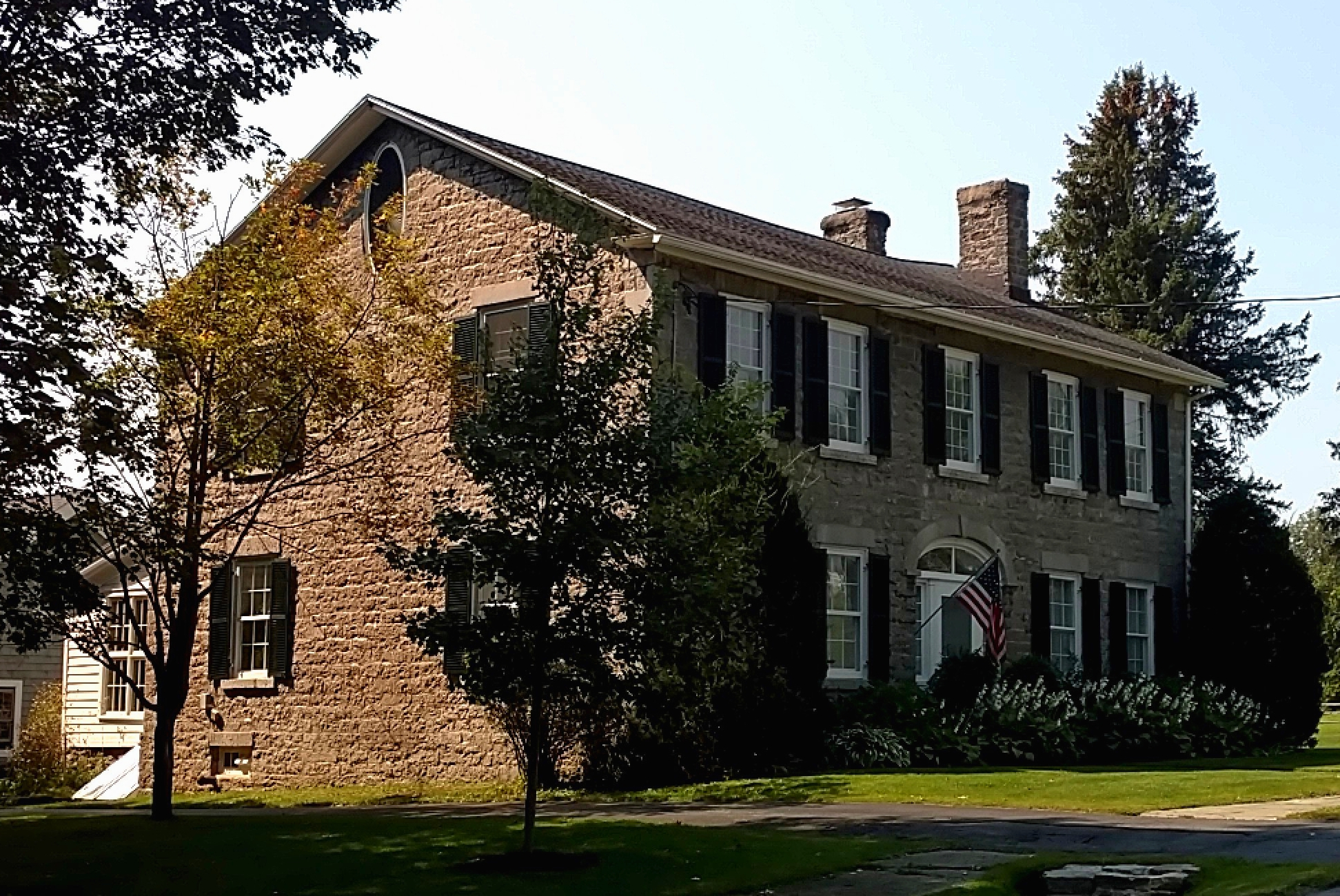 Childhood home of architect and urban designer Daniel Burnham, Henderson, New York, Jefferson County, New York.